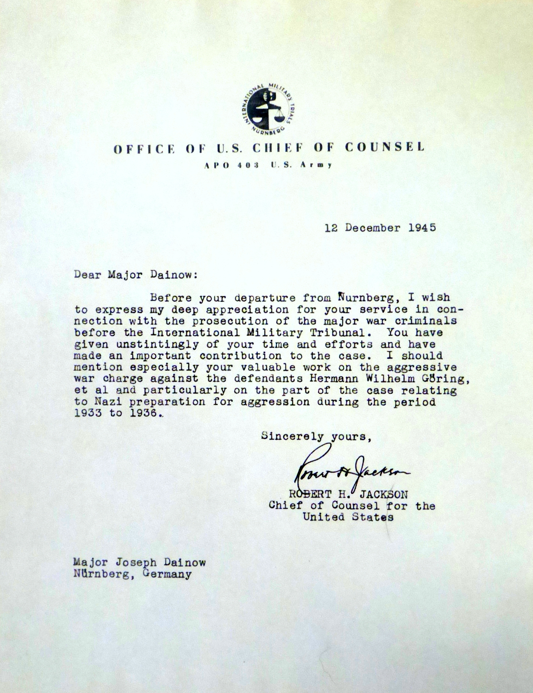 Letter sent to Joseph Dainow from Justice Robert H. Jackson thanking him for his service in the prosecution of major war criminals at Nuremberg.